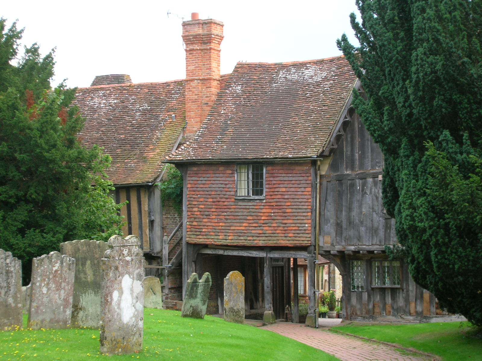 Churchyard, Penshurst, Kent